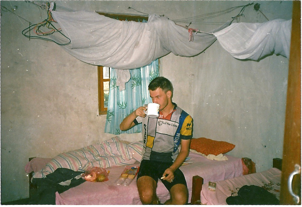 The german journalist Lorenz Schröter in a hotel in Fujian, China, autumn 1989. It was taken by Mr. Schröter himself on his bicycle tour around the world, starting and ending in Munich, Germany.